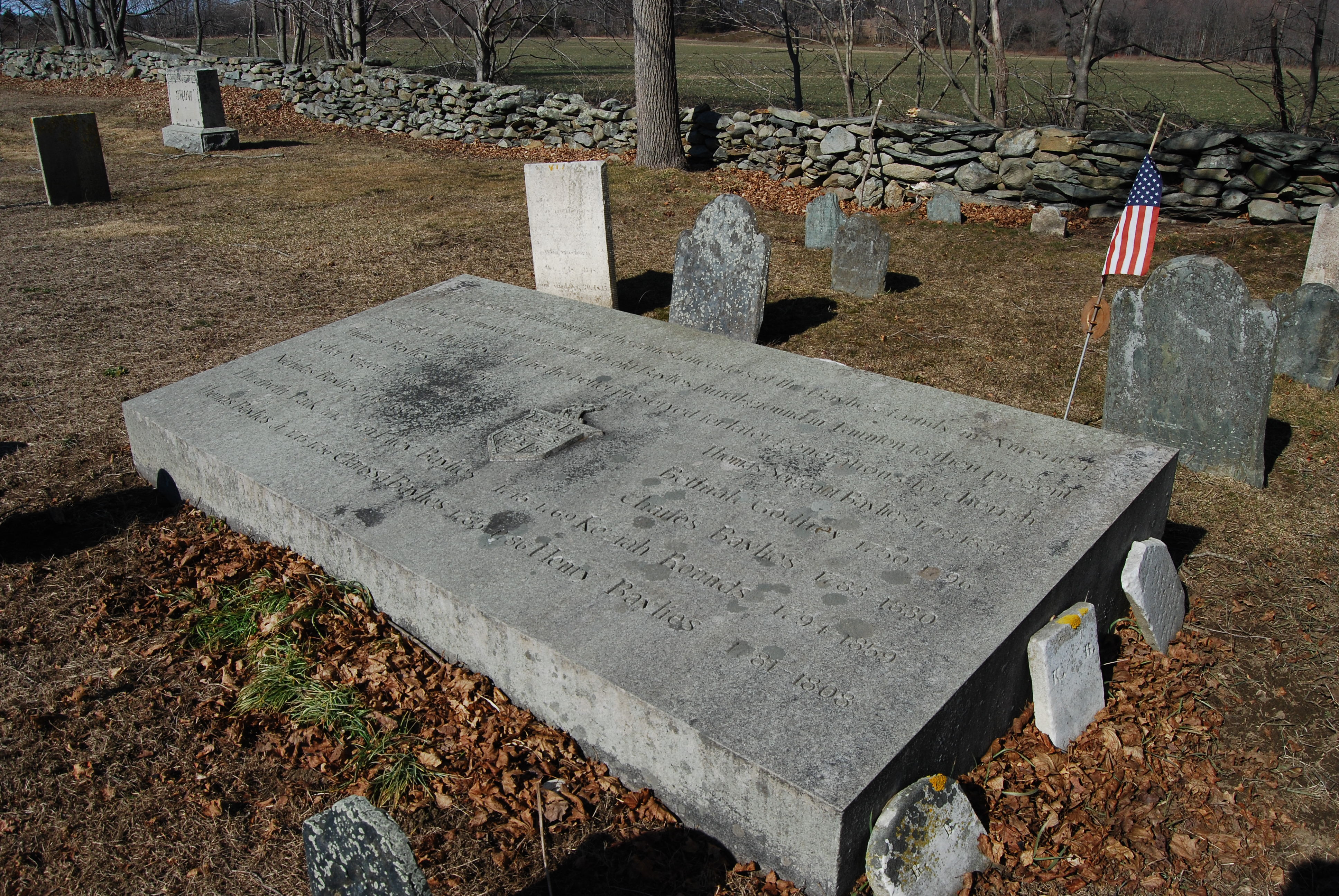 Baylies family memorial marker, Center Cemetery, Dighton, Massachusetts. Inscription reads "Here lies repose the mortal remains of the earliest ancestors of the Baylies family in America. They were removed in 1923 from the old Baylies burial ground in Taunton to their present resting place that they might be better preserved for later generations to cherish. Thomas Baylies 1687-1756 Esther Sargeant 1687-1754 Nicholas Baylies 1719-1807 Elizabeth Park 1717-1791 Thomas Baylies Jr 1715-1756 Lucy Baylies 1745-1769 Clarissa Baylies 1785-1876 Thomas Sargeant Baylies 1748-1796 Bethiah Godfrey 1750-1796 Charles Baylies 1783-1830 Keziah Rounds 1794-1859 Henry Baylies 1781-1808